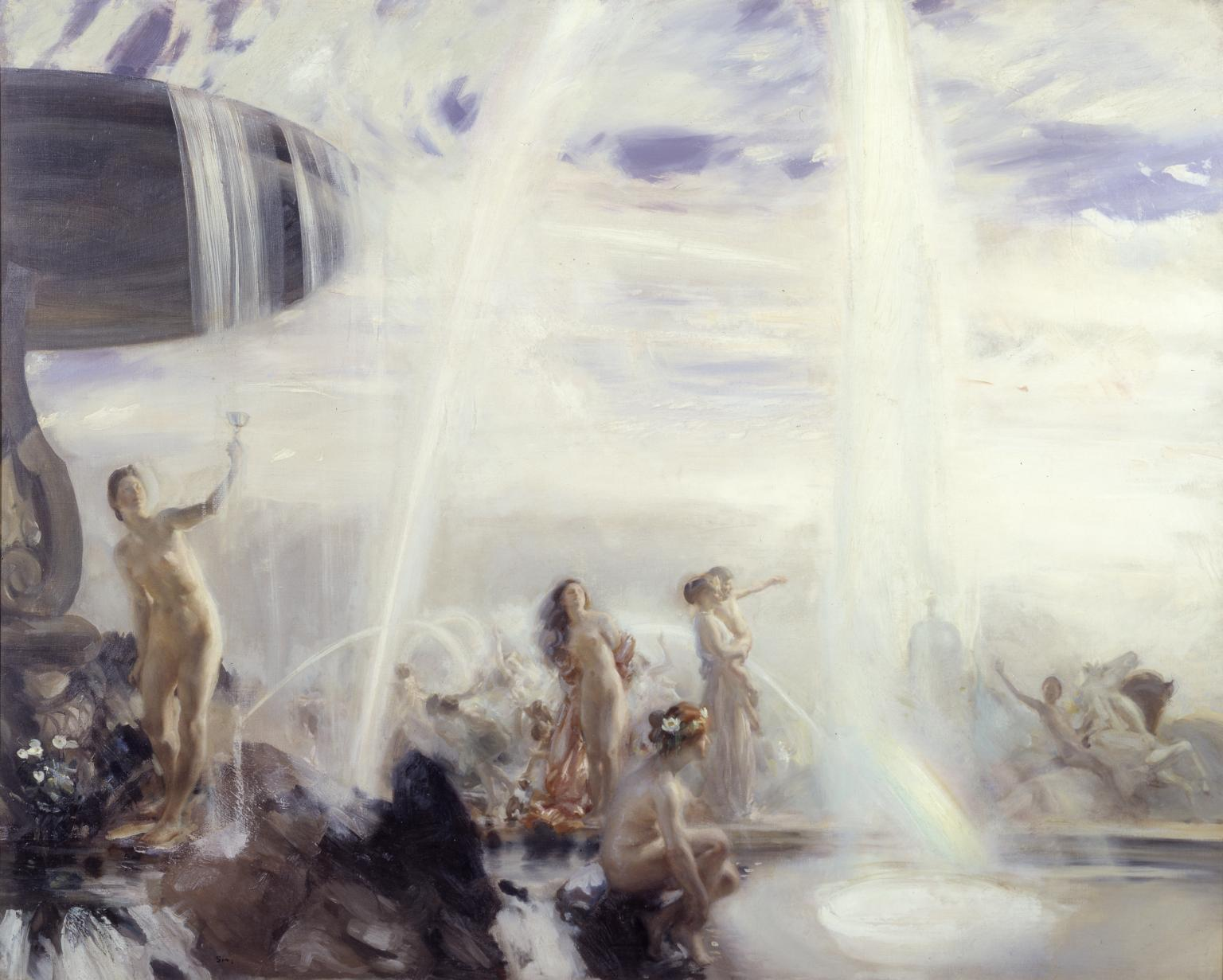 "The Fountain"